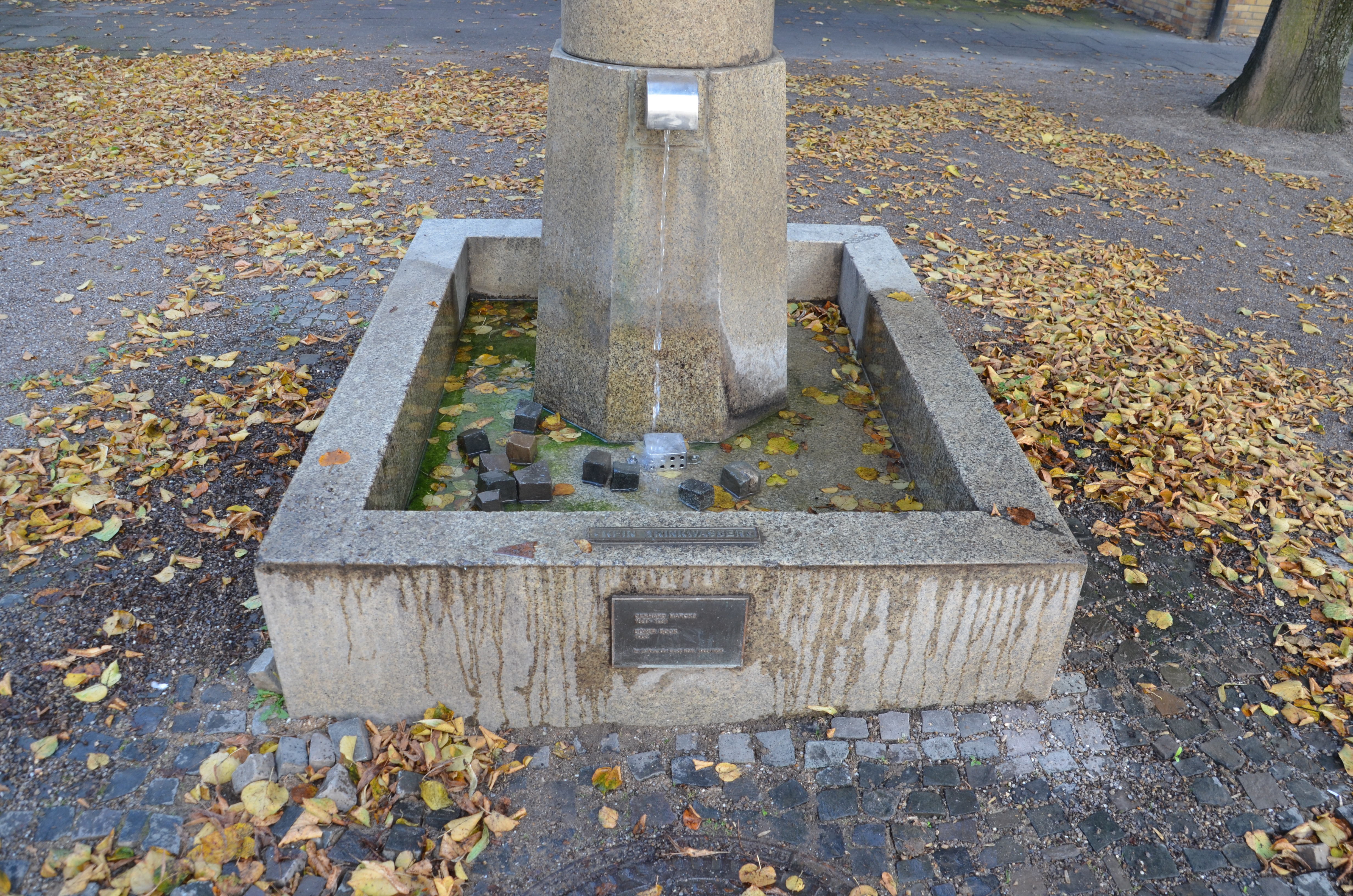 Cologne, fountain "Düxer-Bock"